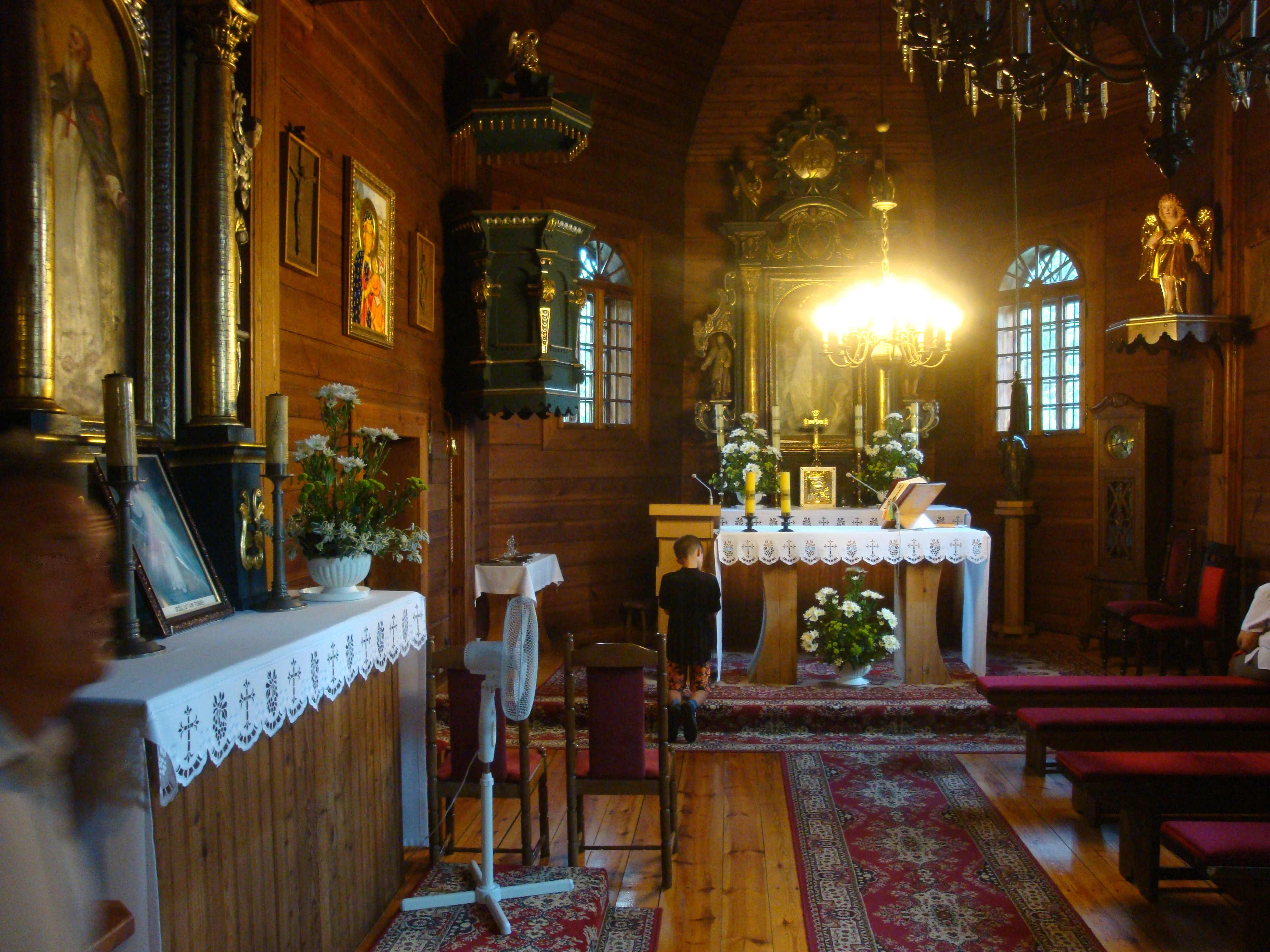 Church of St. Leonard in Troszyn Polski, Poland. Wooden church built in 1636.